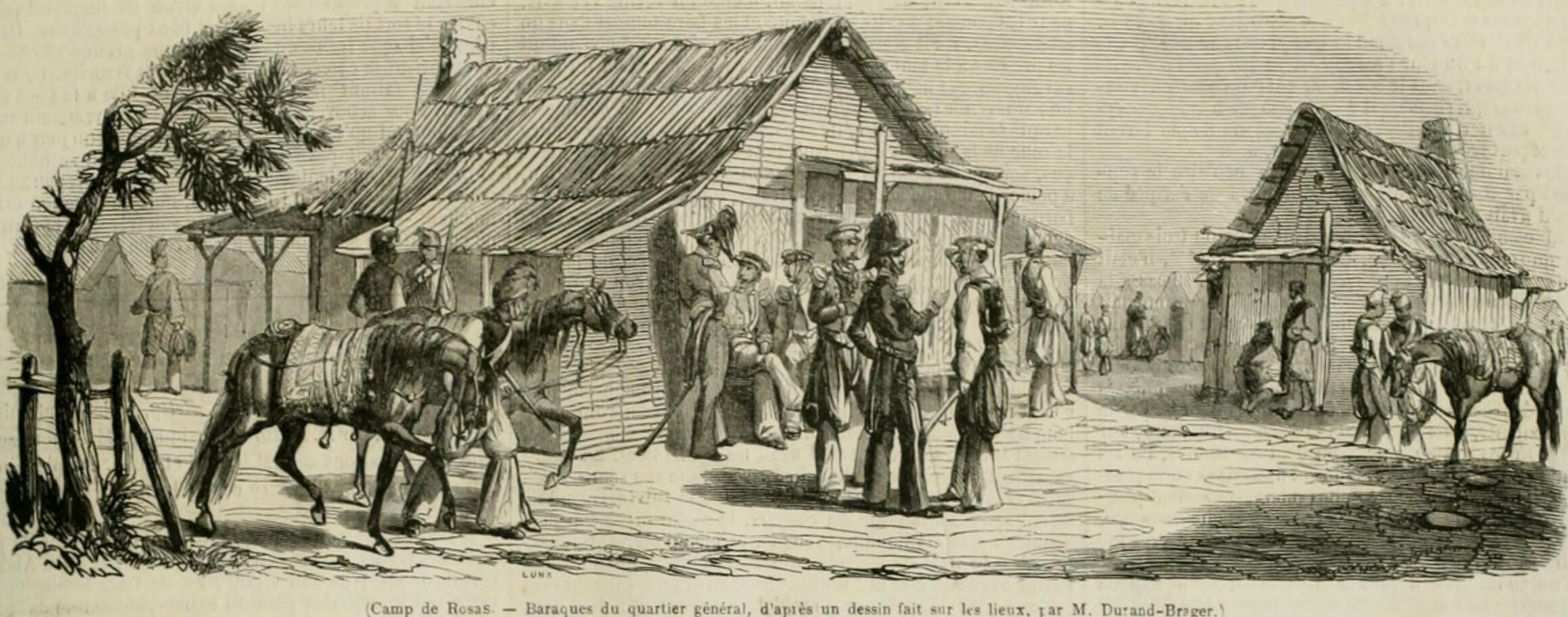 Staff headquarters in one of Juan Manuel de Rosas army camps, Argentina, from drawing by Jean-Baptiste Henri Durand-Brager (1814-1879), Illustration from LIllustration, Journal Universel, No 177, Volume VII, July 18, 1846